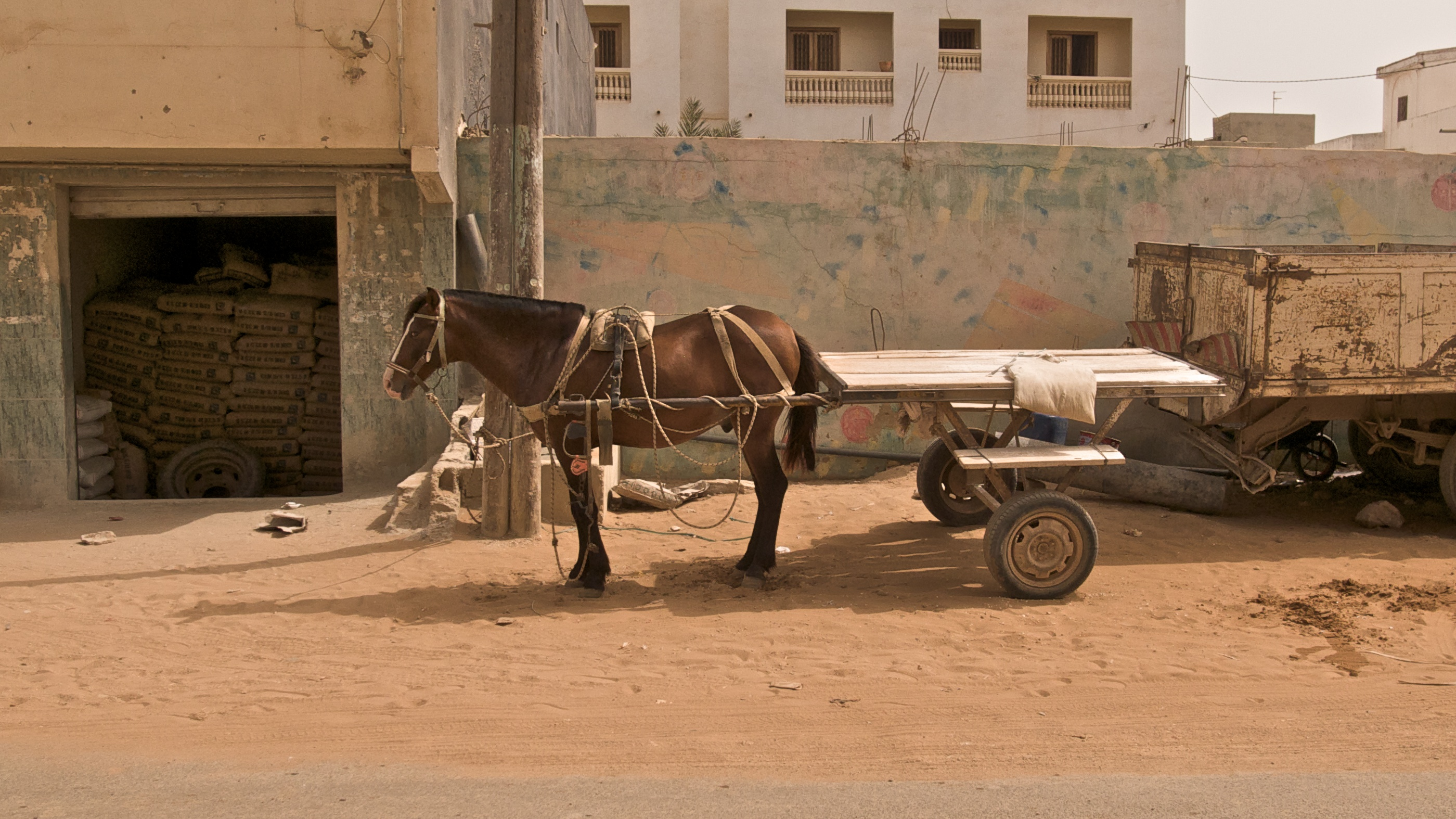 Beast of burden.